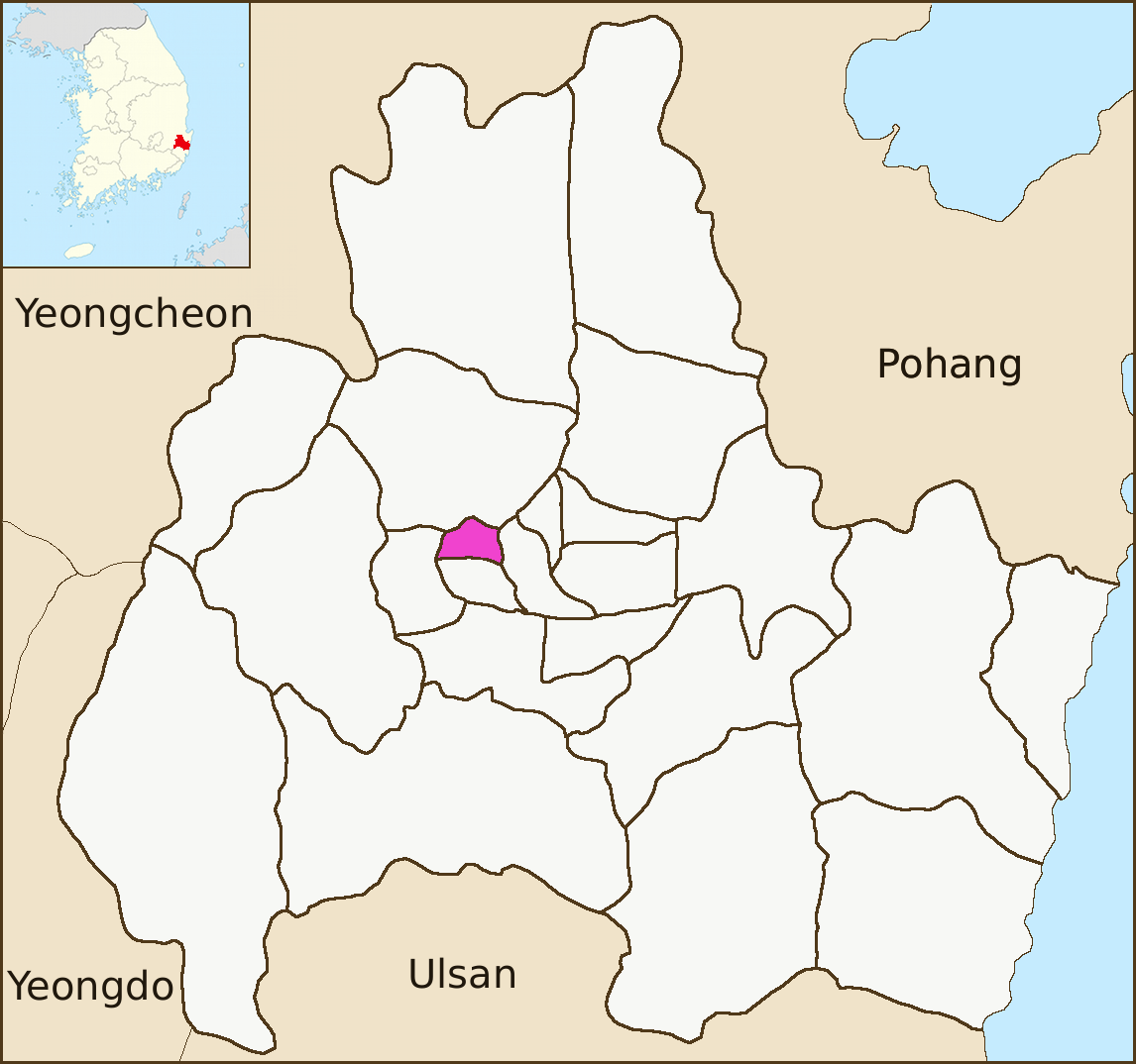 Map of Seonggeon-dong, an administrative division of Gyeongju, South Korea. Created by User:Visviva, redrawn by Kokiri